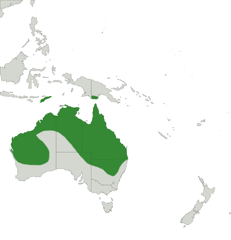 Geographic distribution of Litoria rubella